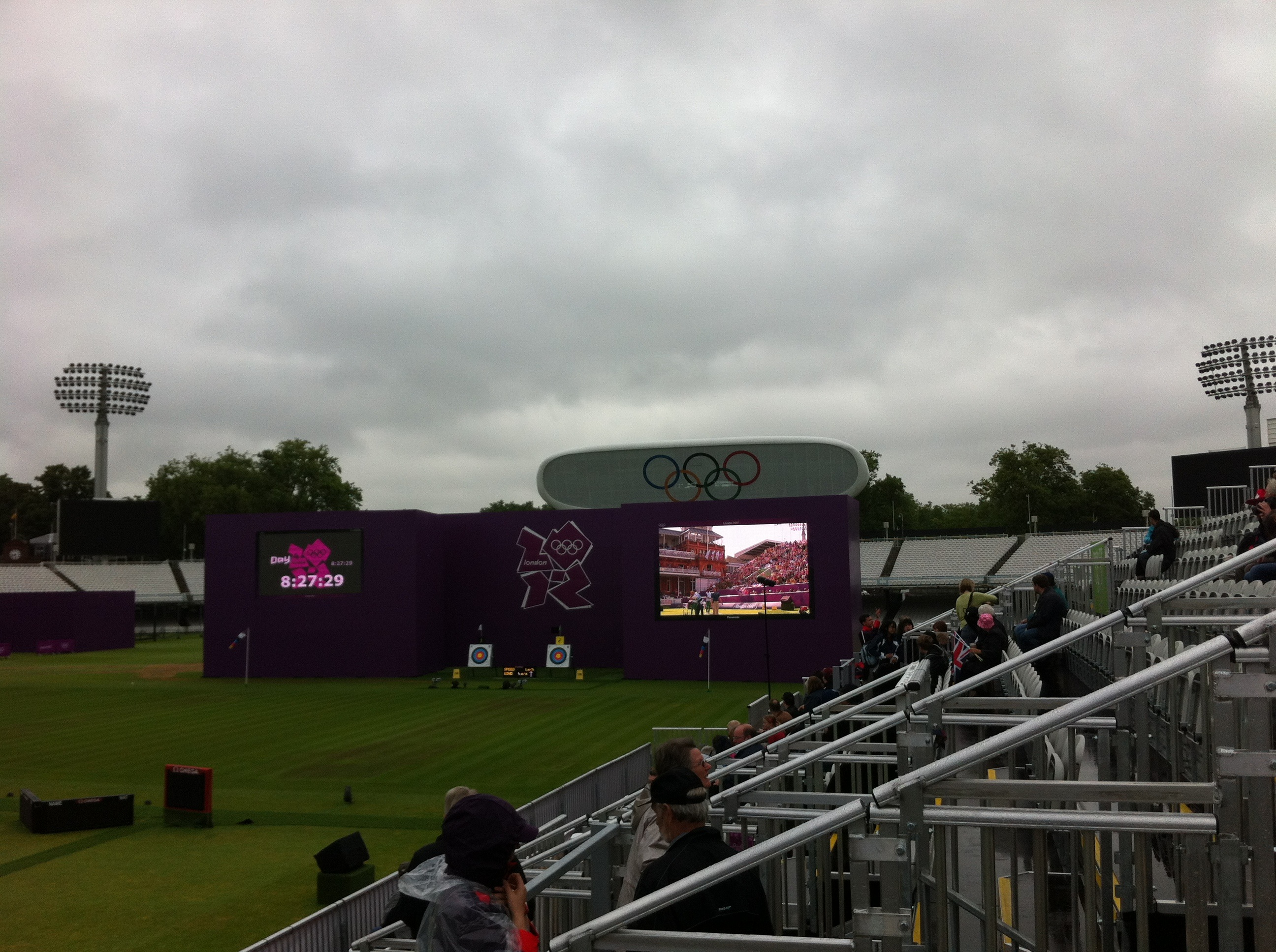 Photo of the setup for the Archery Event at the 2012 Summer Olympics